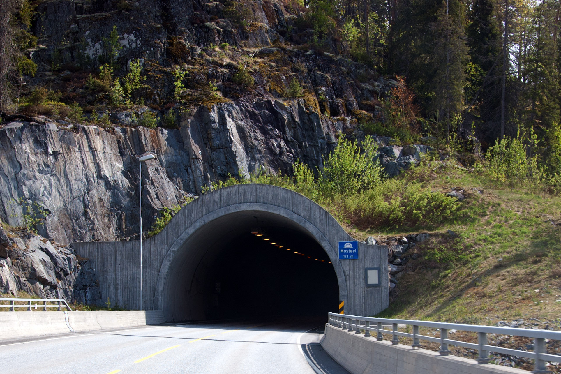 Mostøyltunnelen road tunnel on E134 in Telemark, Norway.